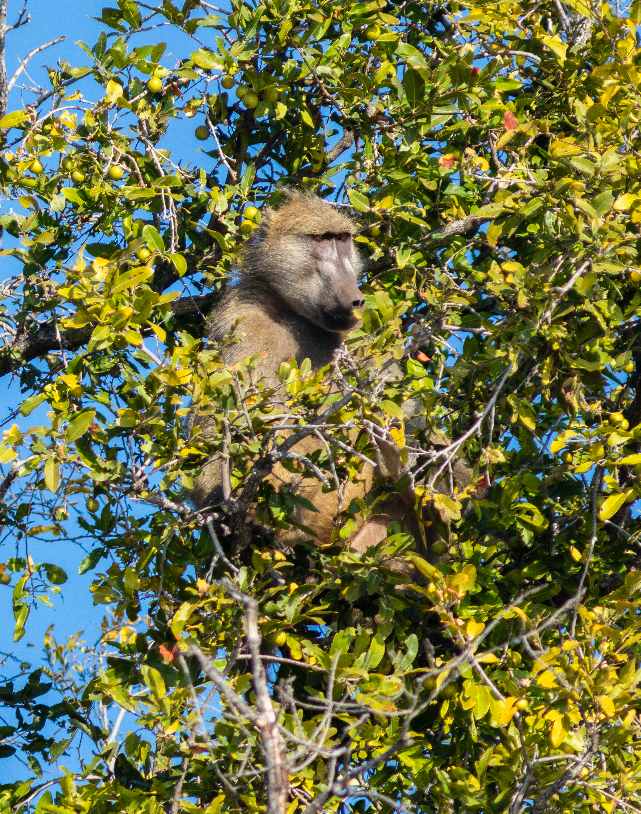 Chacma baboon (Papio ursinus), Chobe National Park, Botswana